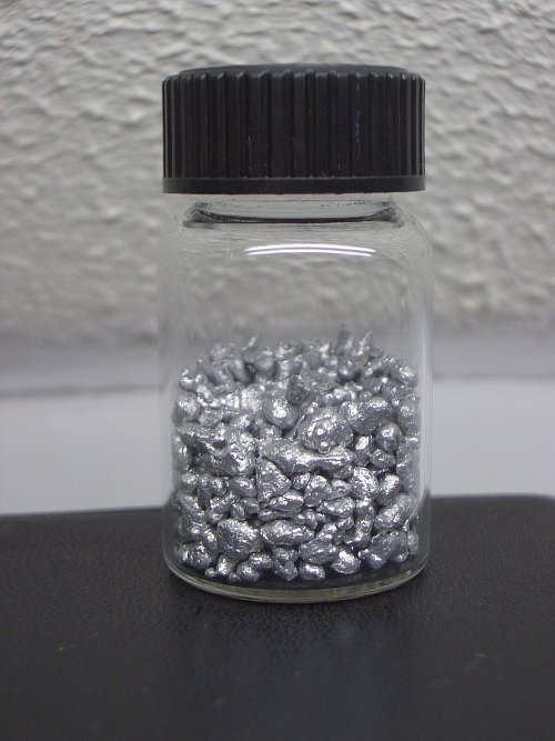 Pellets of very pure antimony